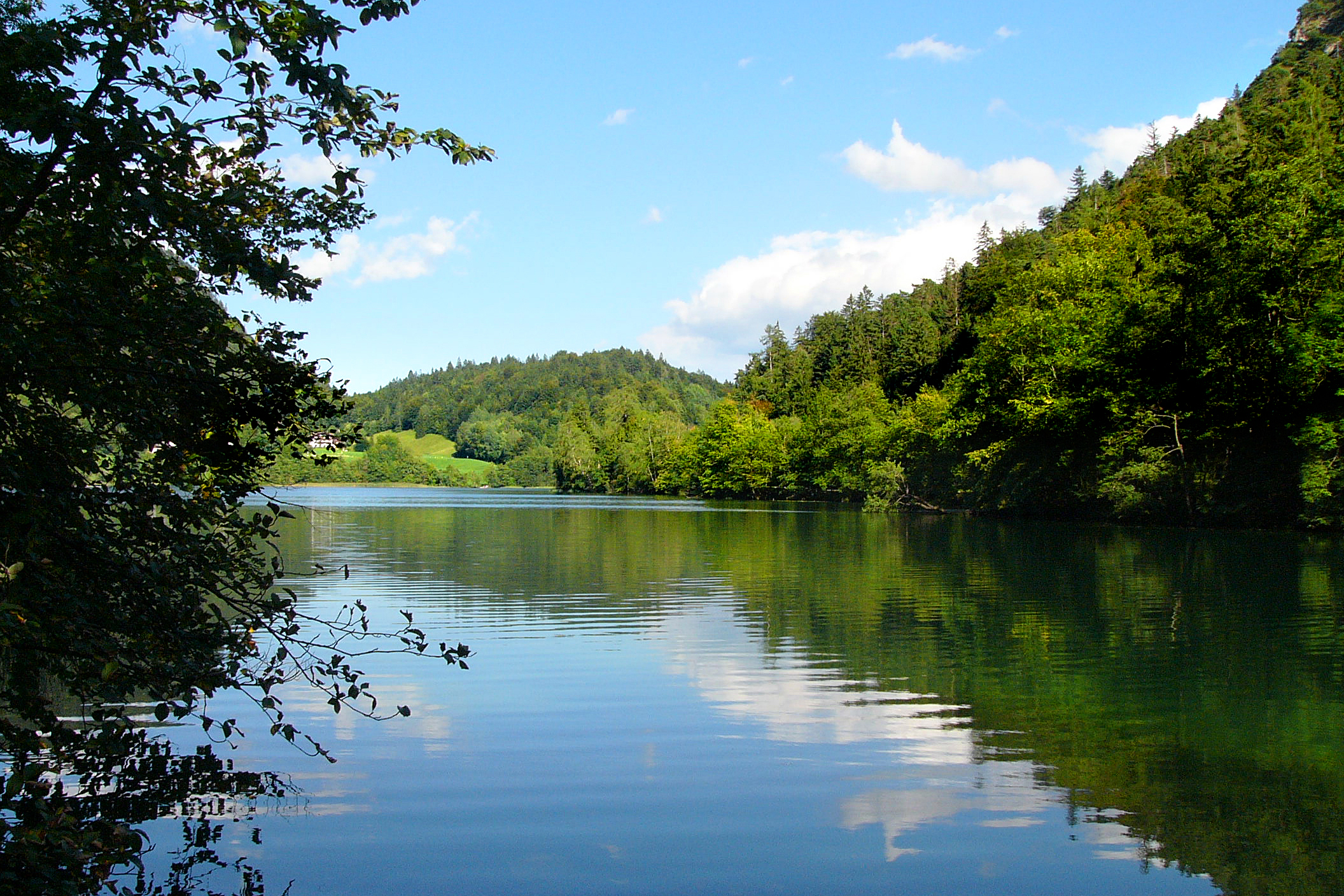 Lake Thumsee seen from the West near Bad Reichenhall in Bavaria, Germany.